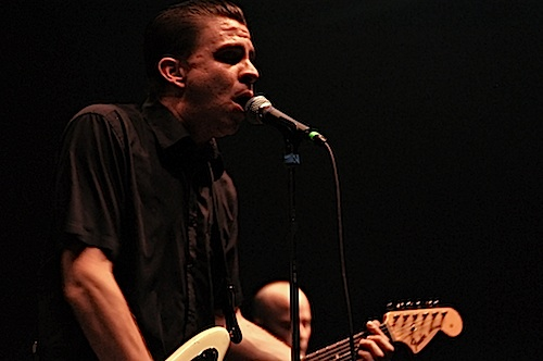 The Aggrolites - Live in Concert (photo by Scott Dudelson)